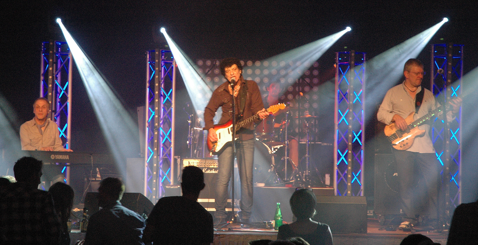 Mungo Jerry with Ray Dorset at ZüriSeeFestival 2013, Switzerland